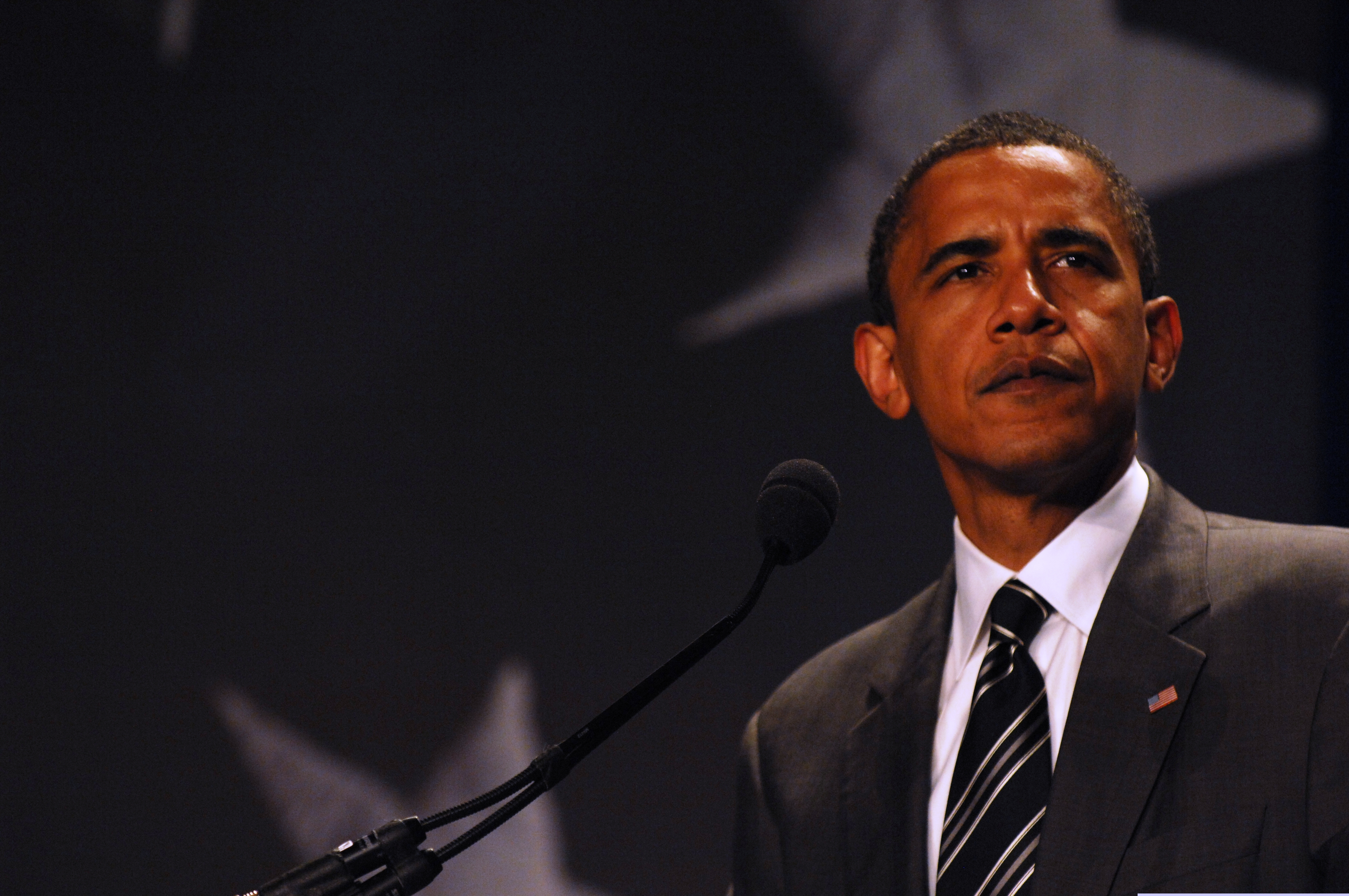 U.S. Senator Barack Obama, Democratic Party Presidential Candidate, addresses members of the League of United Latin American Citizens at the league's 79th National Convention and Exposition in Washington D.C., July 8, 2008. VIRIN: 080708-F-6414K-258